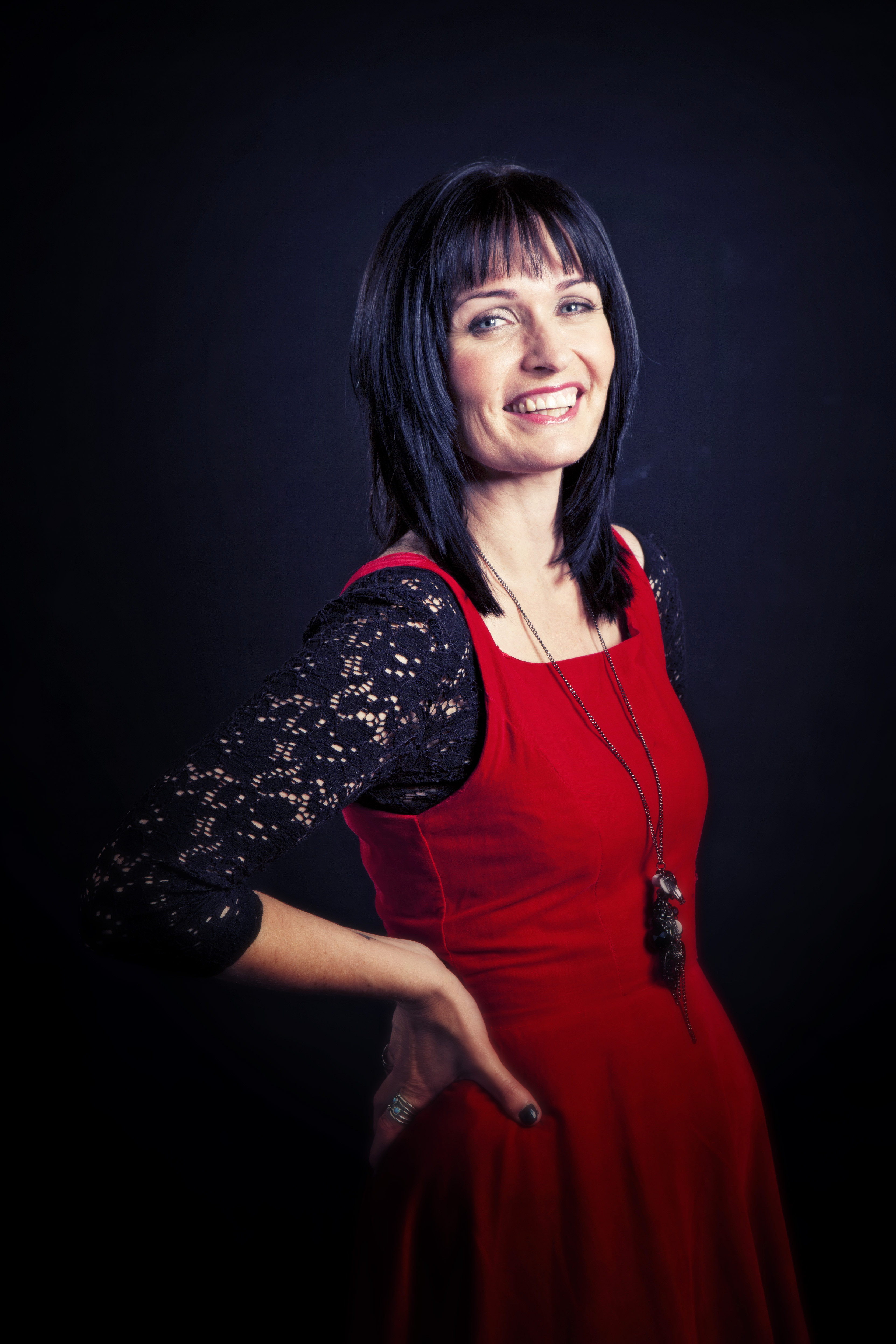 The image is of the author Kim Wilkins. Other information The photographer's website is: He can be contacted if need be to provide copyright clearance.